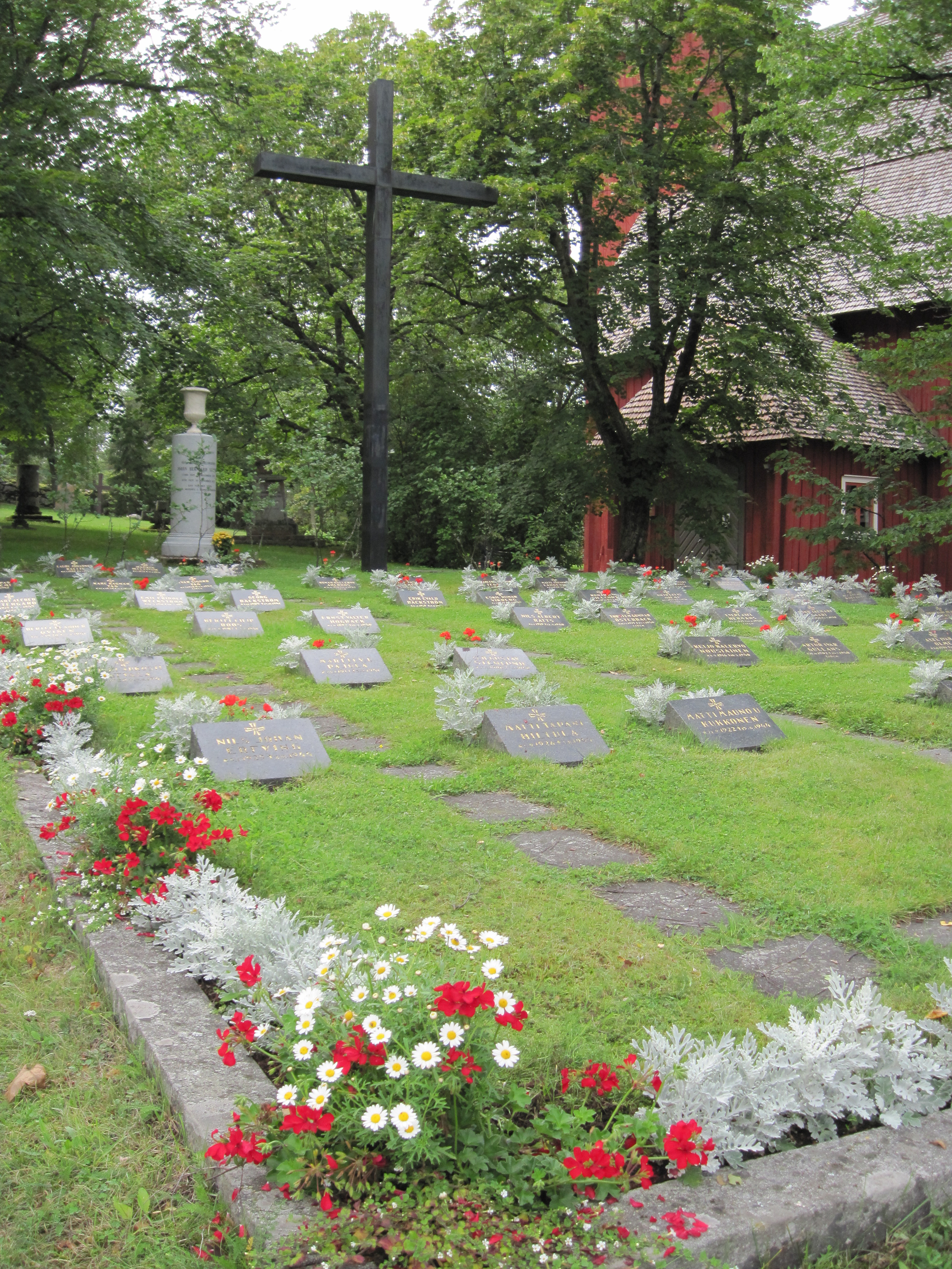 Military cemetary at Ulrika Eleonora's church in Kristinestad, Finland